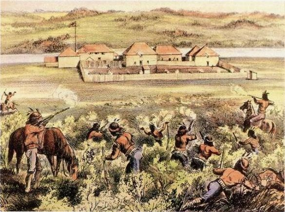 The Battle of Fort Pitt. Contemporary illustration from "The Illustrated London News".